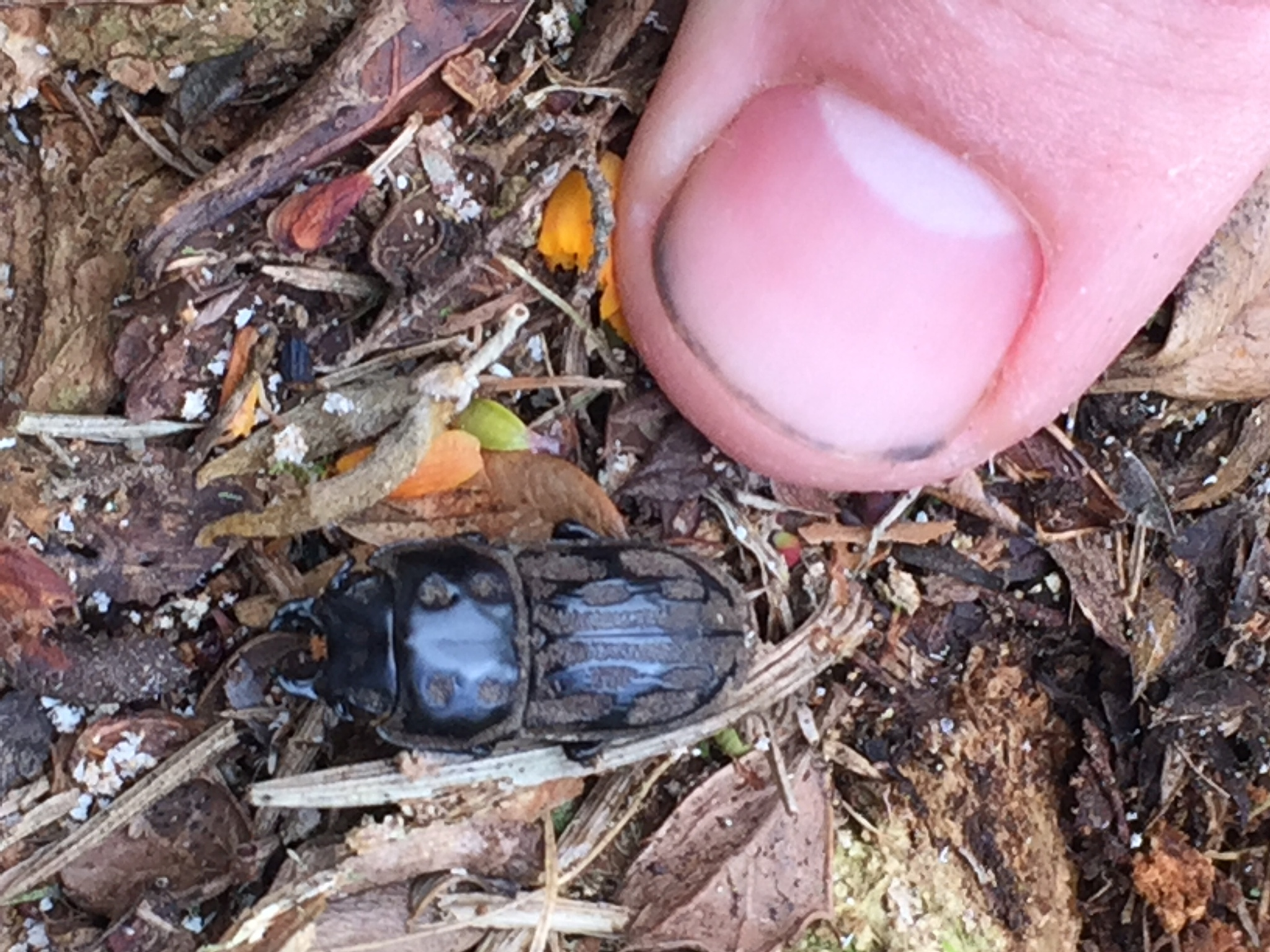 Paralissotes reticulatus by Jaco Grundling via iNaturalist